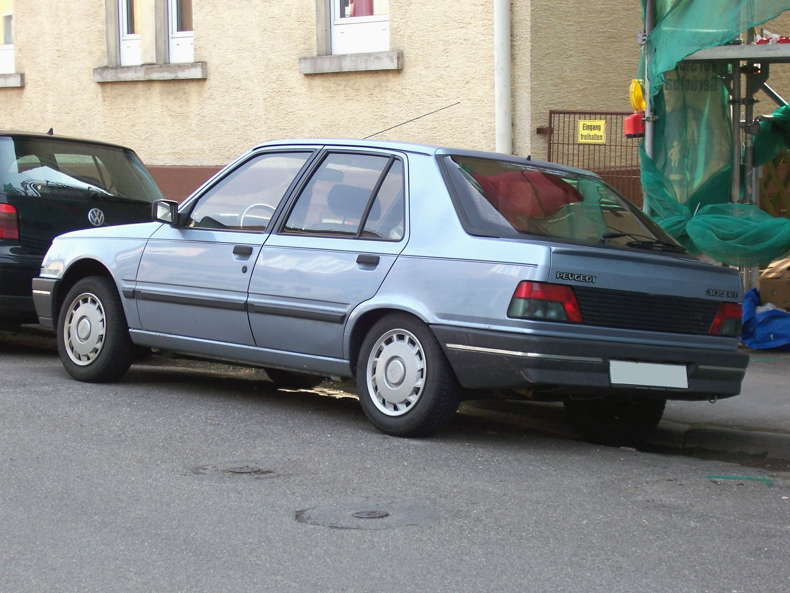 Peugeot 309 5d Mk2 rear view